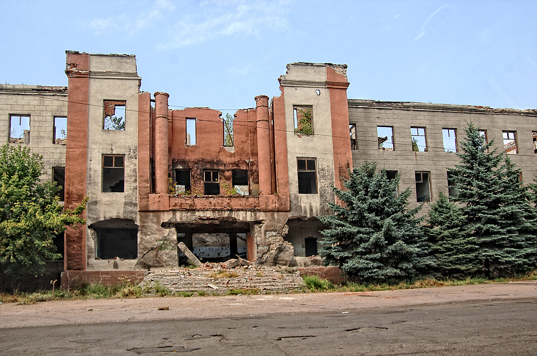 Artema Mine in Artemove, Dzerzhynsk Municipality, Donetsk Oblast, Ukraine